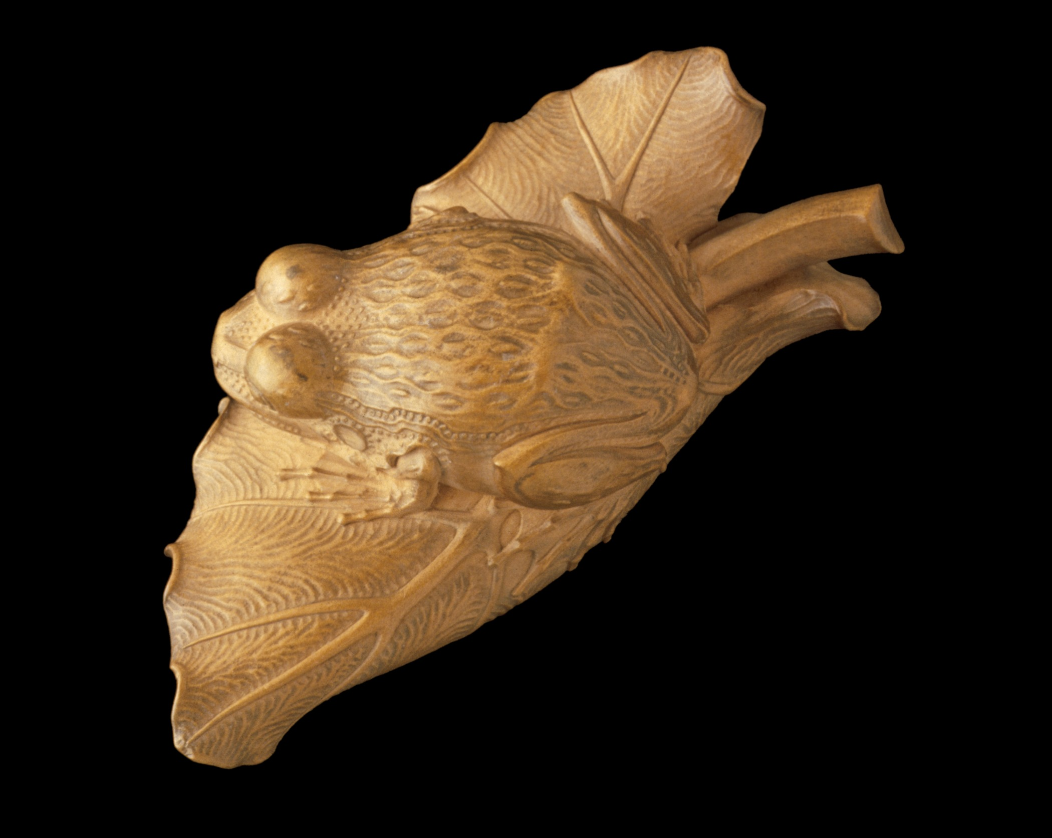 Japan, 1782 Costumes; Accessories Boxwood 2 13/16 x 1 5/16 x 15/16 in. (7.1 x 3.4 x 2.4 cm) Raymond and Frances Bushell Collection (M.91.250.13) Japanese Art Currently on public view: Pavilion for Japanese Art, floor 2